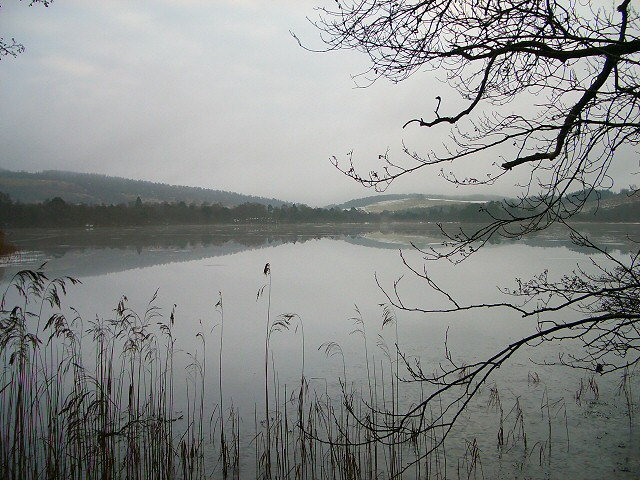 Loch of Craiglush in winter. Looking south over the frozen loch. A thaw has begun so there is water on top of the ice.